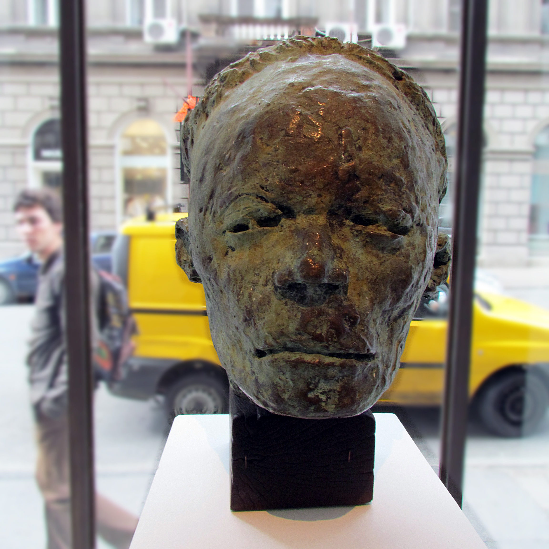 Petar Omcikus: Milo Milunovic